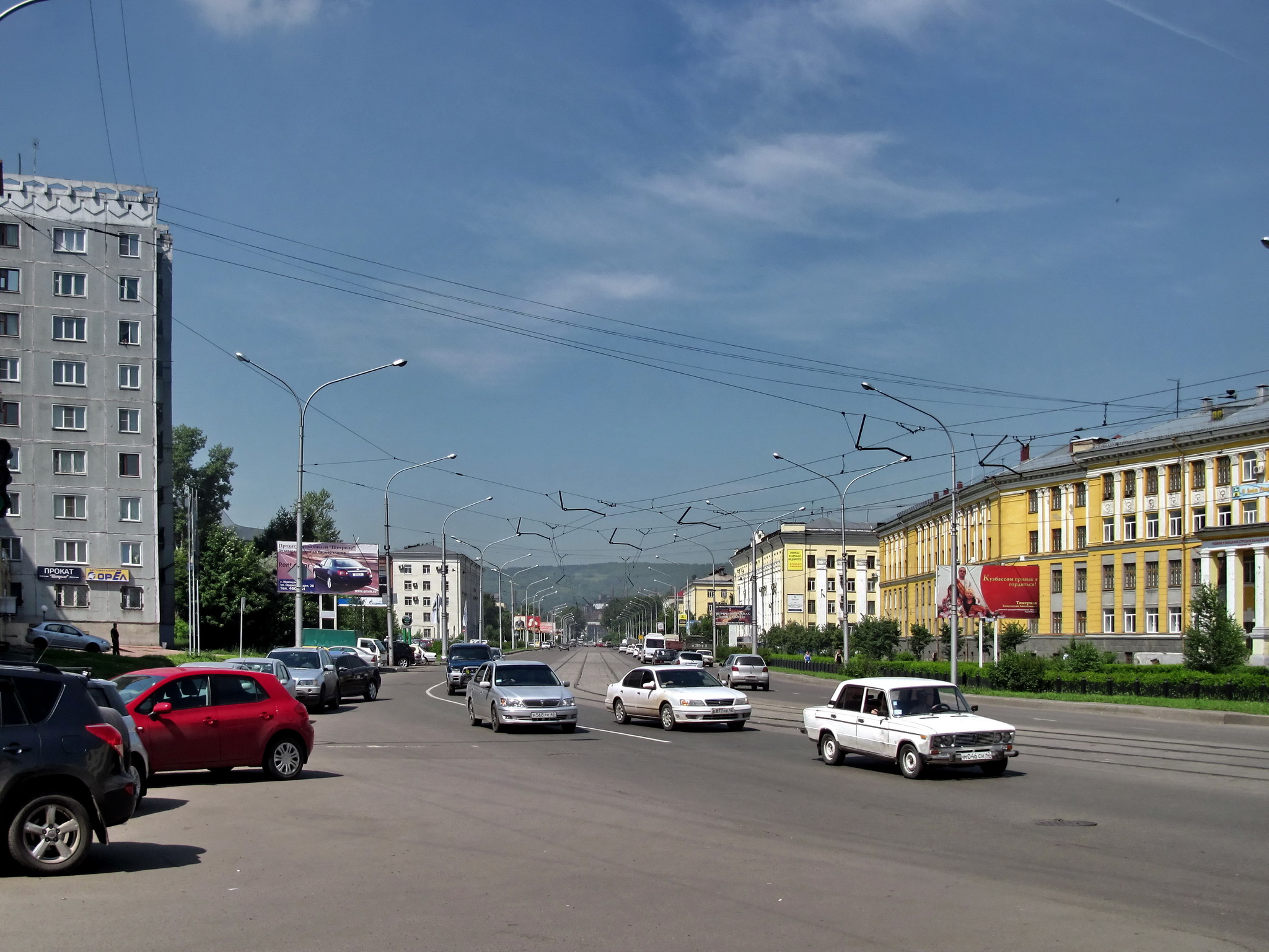 Ordzhonikidze Street in Novokuznetsk, Russia